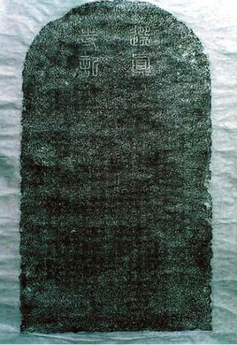 Rubbing of the Manichaean stele erected in 1351, in front of the Hsüan-chên Temple at Tsʻang-nan County, Wên-chou, Chekiang.